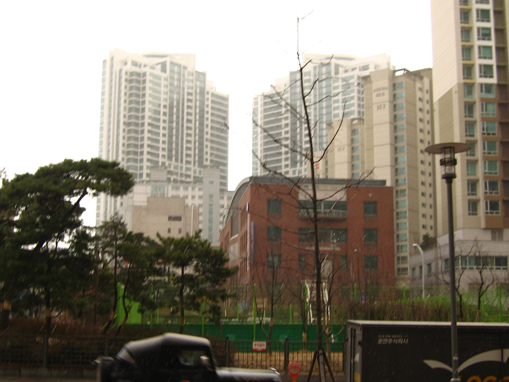 Asian Dust in Seongnam, South Korea.